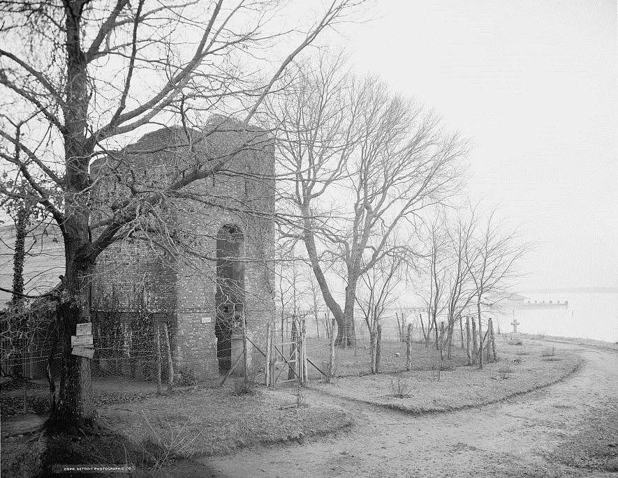 Ruins of the original Jamestown church tower.